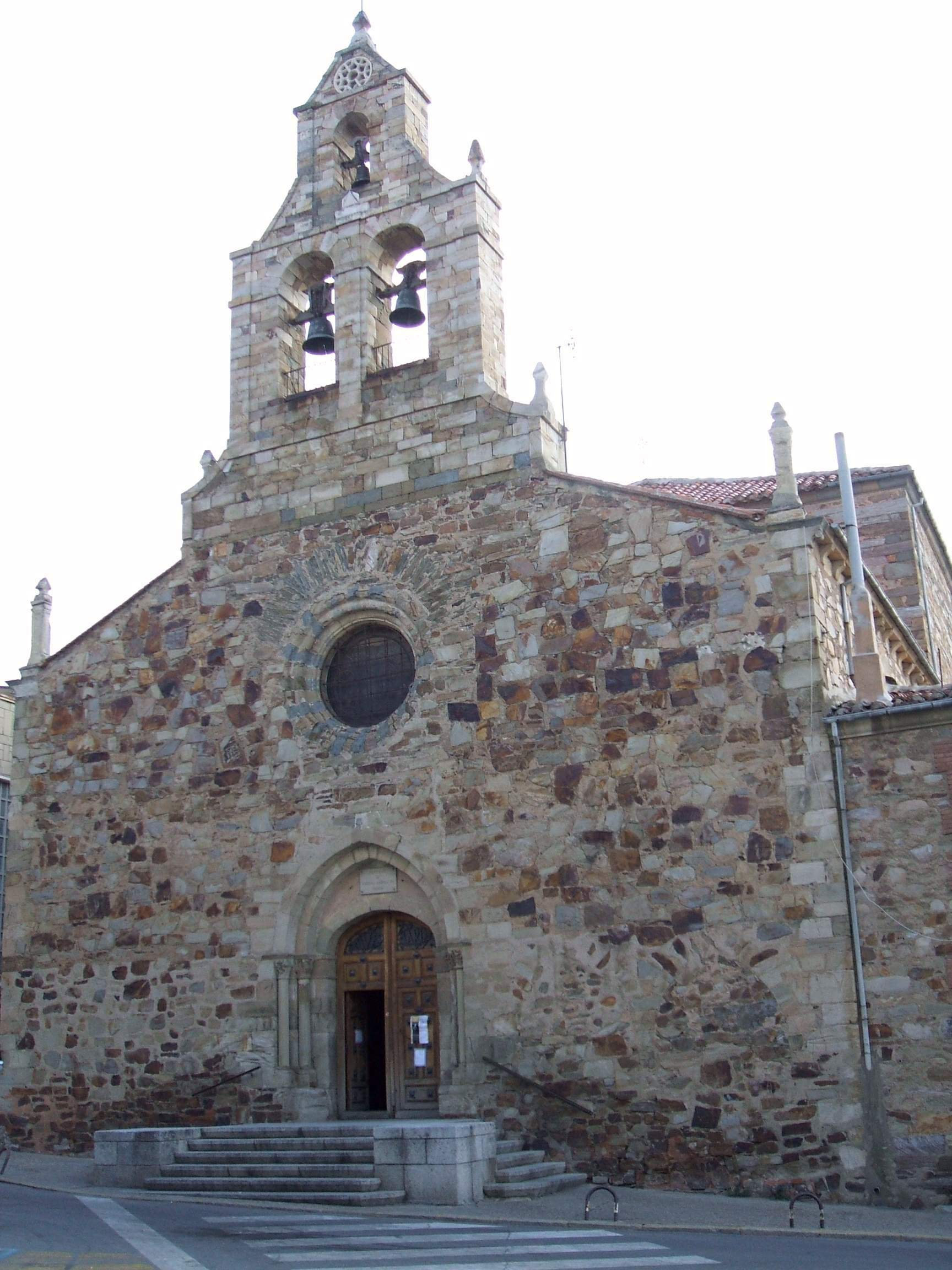 Santuario de N. S. de Fátima (Astorga)